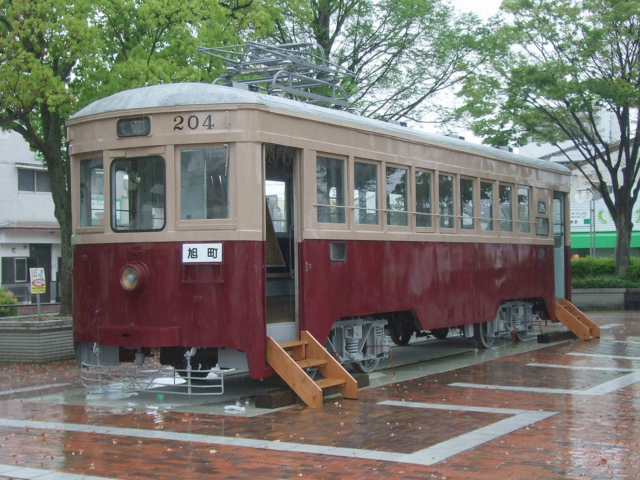 Company:Nishi Nippon Railroad Type:Tram Type200 Car number:204 Location:Omuta Station, Omuta, Fukuoka, Japan.